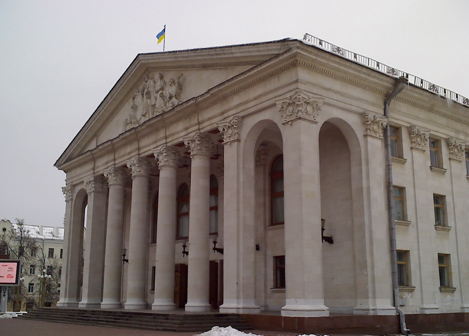 Taras Shevchenko Theatre